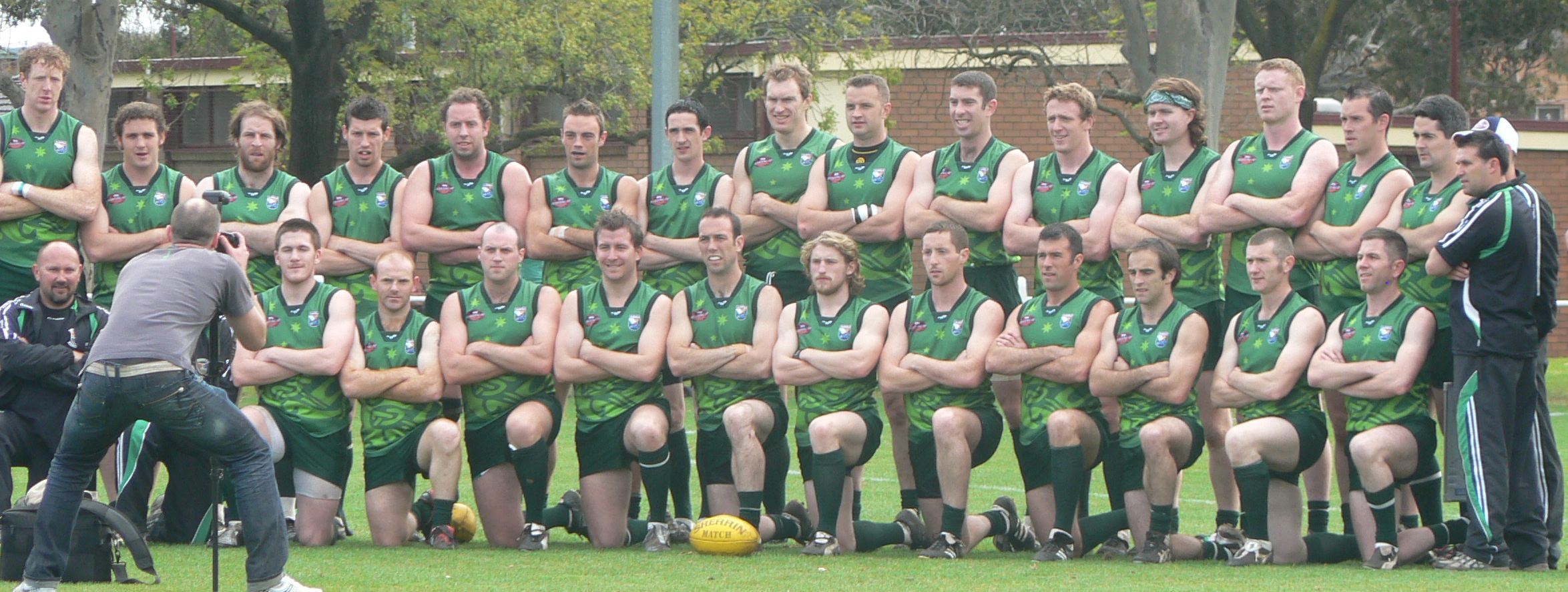 Ireland's national team line up for a photo at the Australian Football International Cup in 2008.